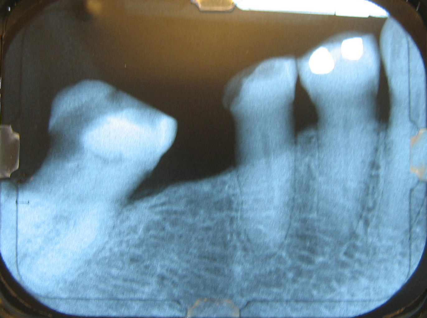 Dental x-ray example showing Right pre-molar